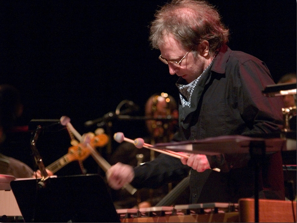 Ed Mann in Budapest (Zappa Festival 2007)